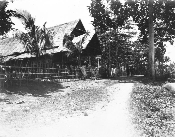 The house of Aroe Lompingan at Tjabenge